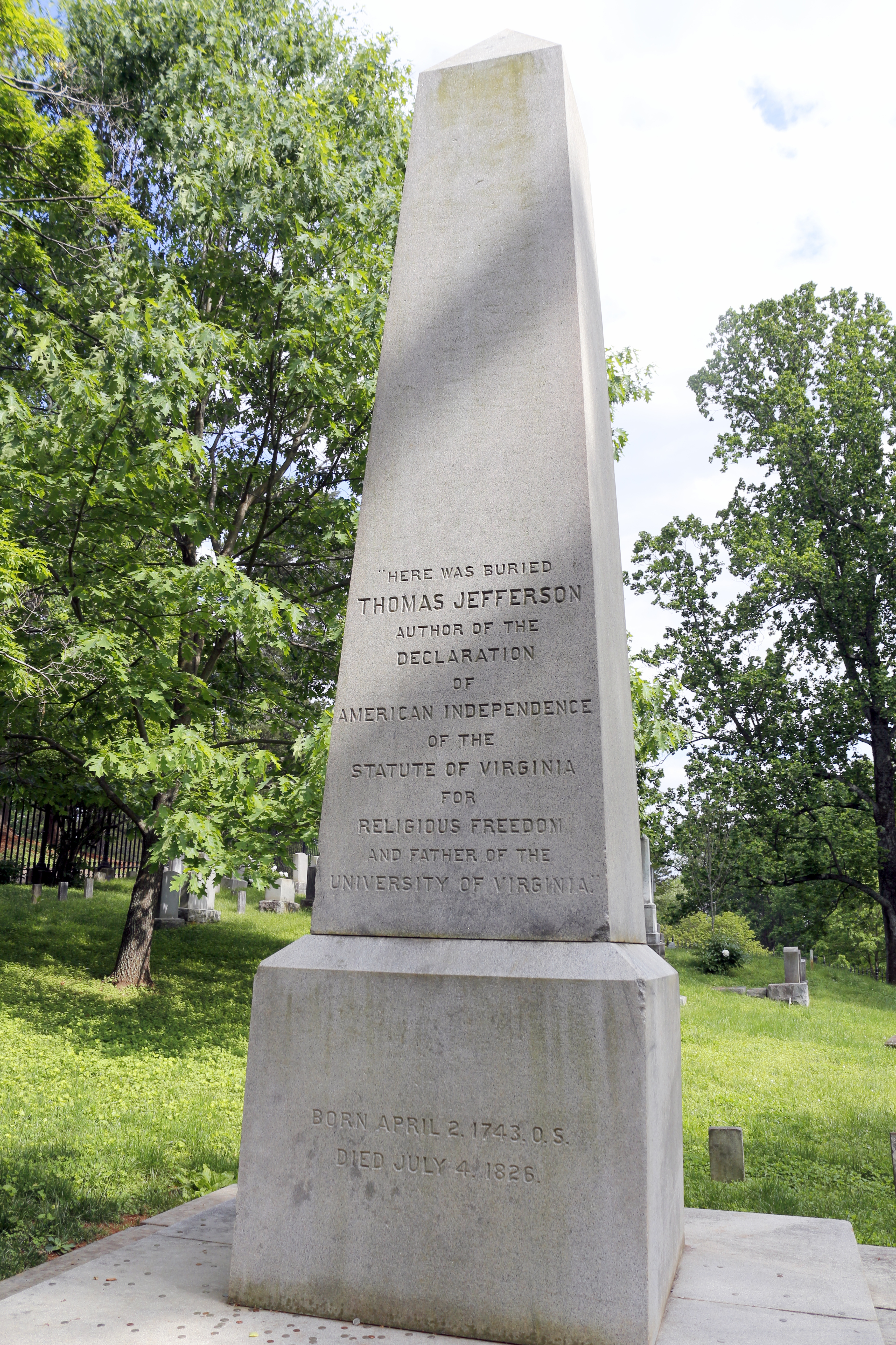 I obelisk marking the grave of Thomas Jefferson in the family graveyard at Monticello